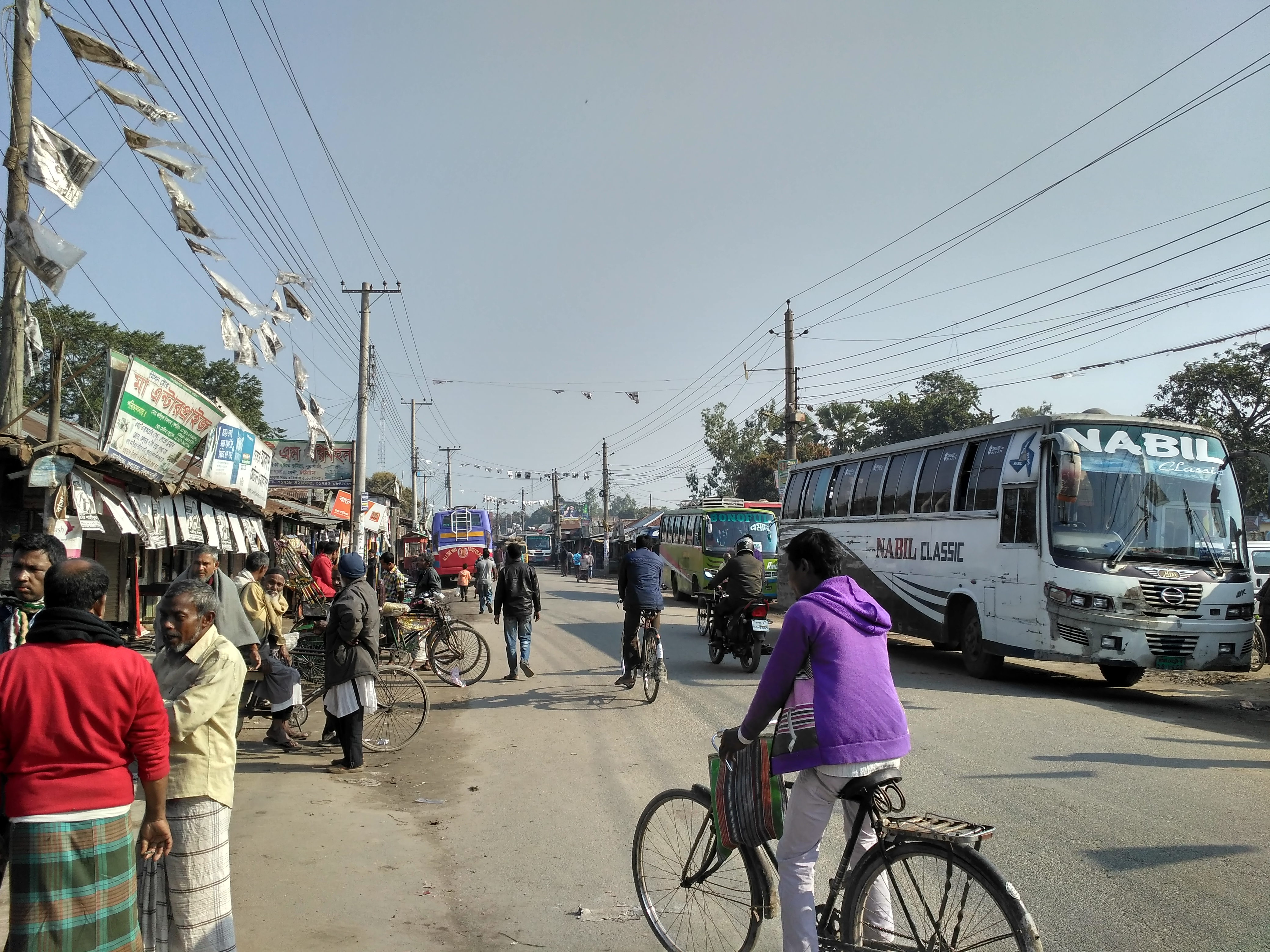 View of the road near Jaldhaka bus stand, Dimla - Jaldhaka Road, Nilphamari, Bangladesh. (01.03.2019)